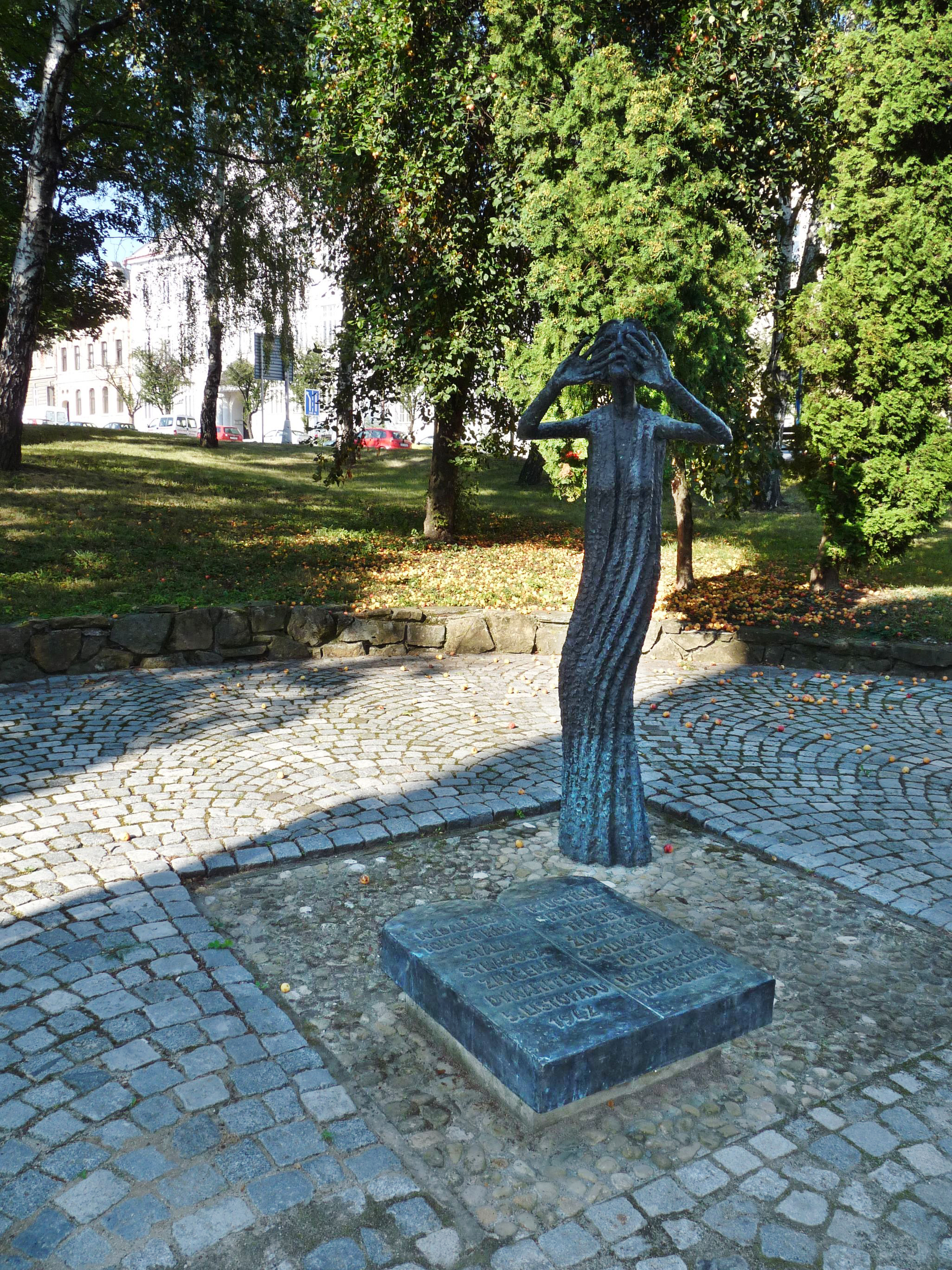 Last town synagogue memorial by Olbram Zoubek in the town of Kroměříž, Zlín Region, Czech Republic.